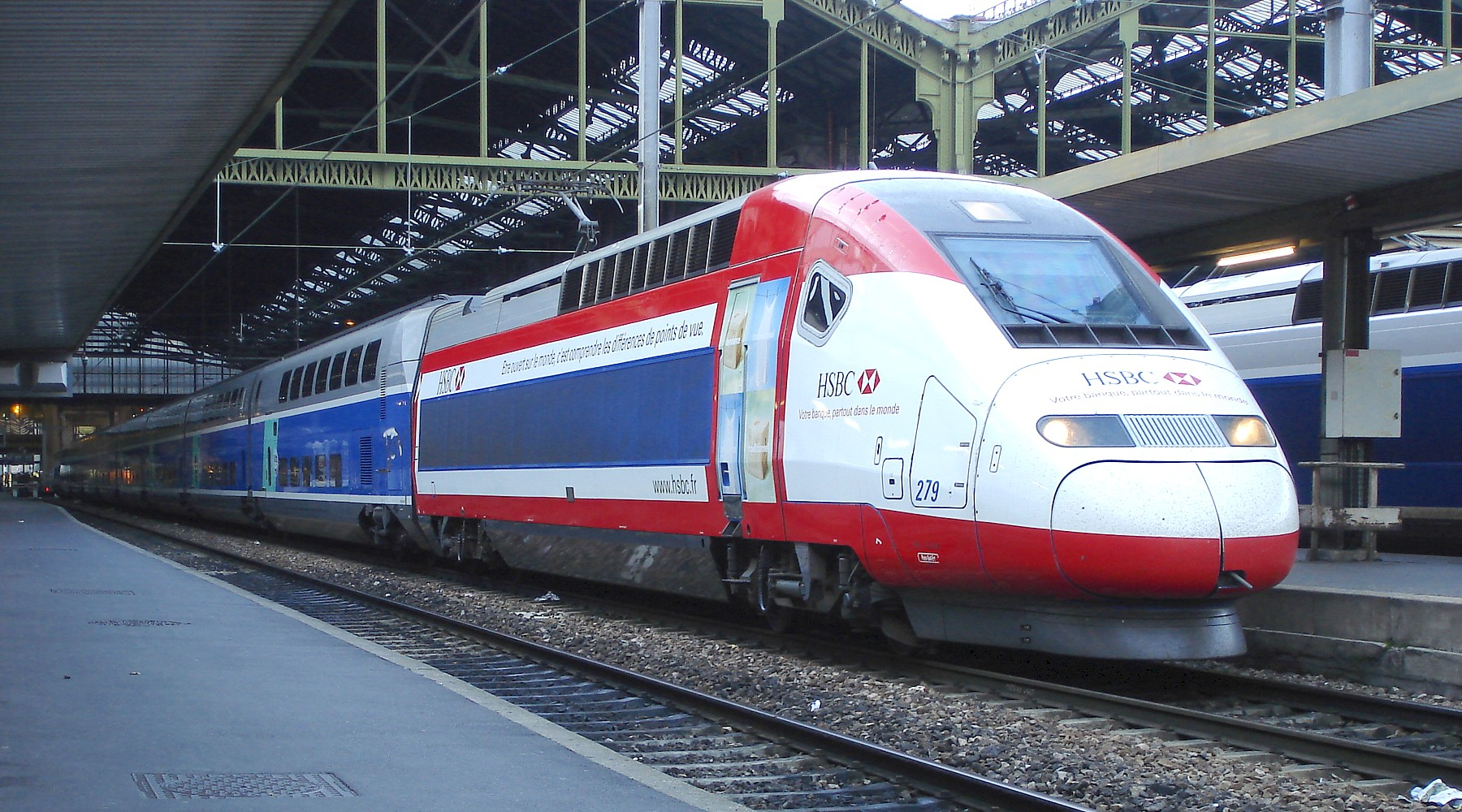 TGV Duplex with HSBC Livrery